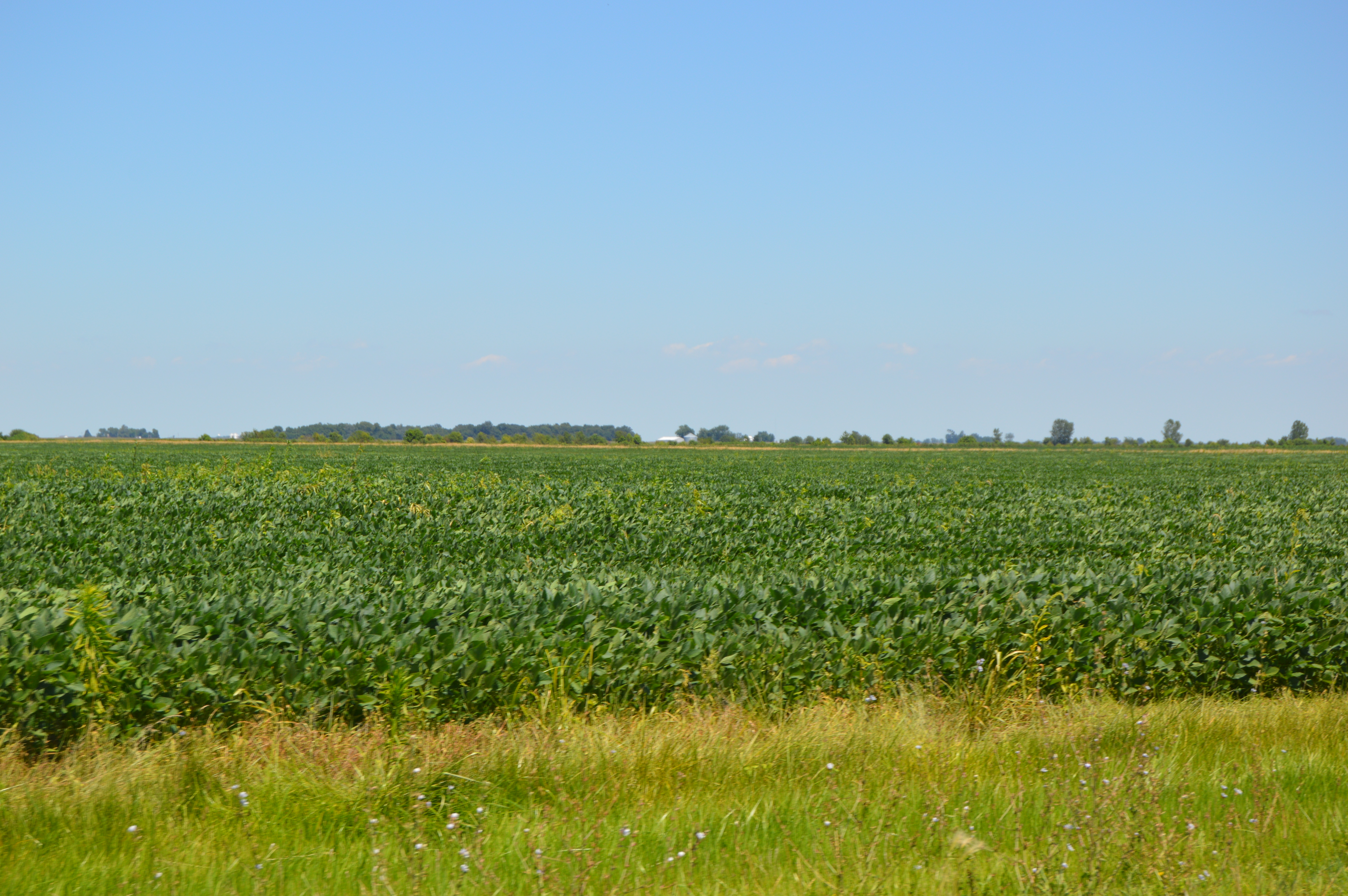 Soybean fields along the northern side of U.S. Route 52 east of the Iroquois River in Martinton Township, Iroquois County, Illinois, United States.